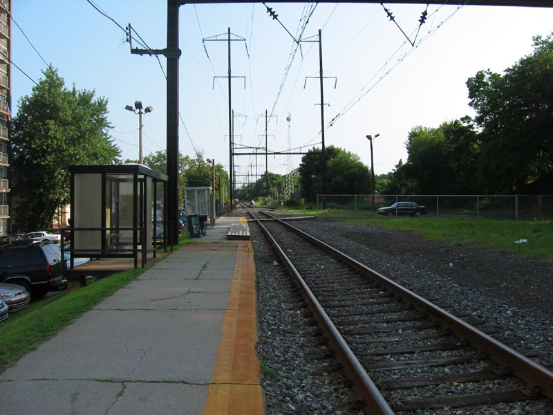 Photo of Wynnefield Avenue train station in Philadelphia, Pennsylvania.